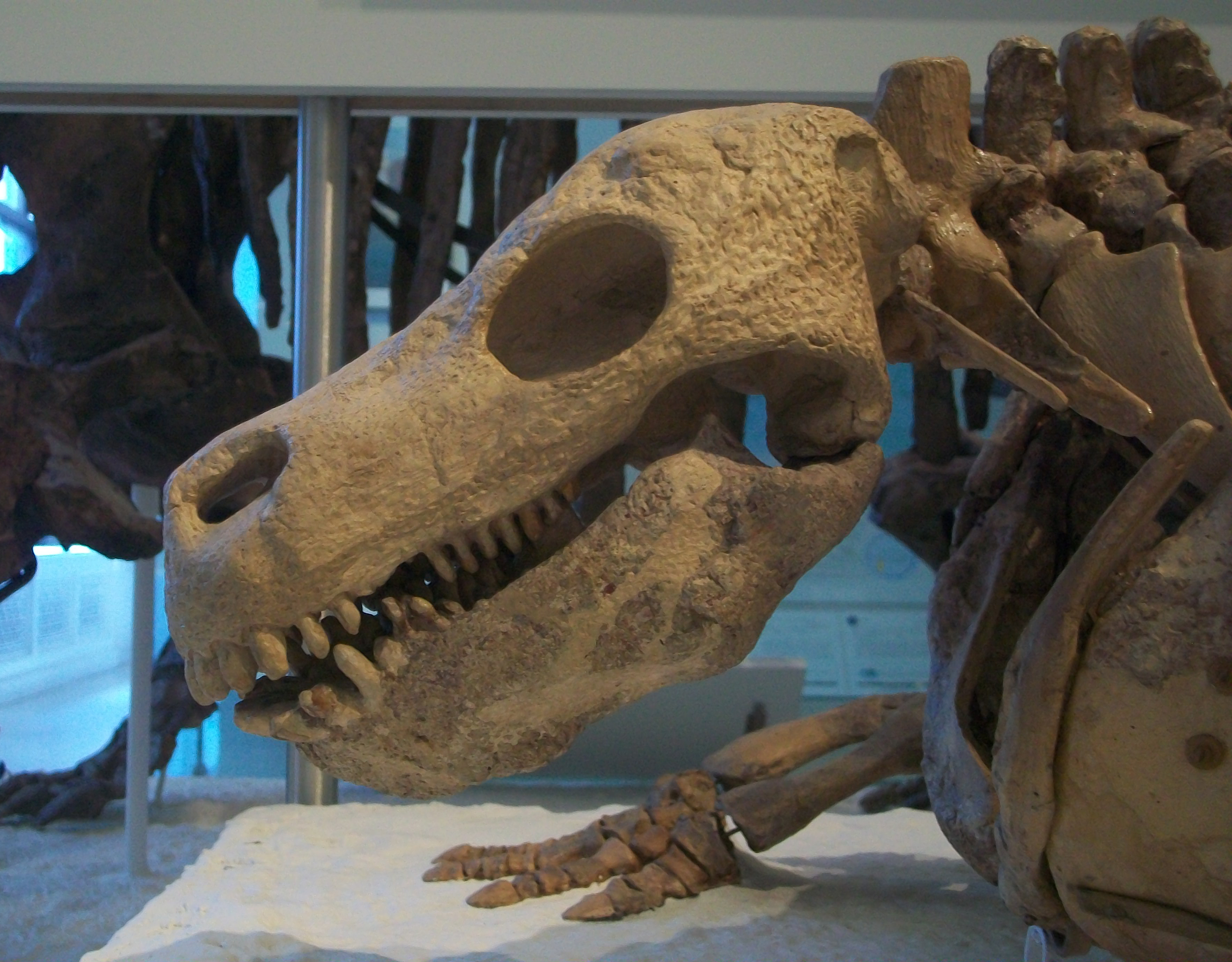 Skull of Diadectes sideropelicus (specimen AMNH 4684, labelled Diadectes phaseolinus) in the American Museum of Natural History.